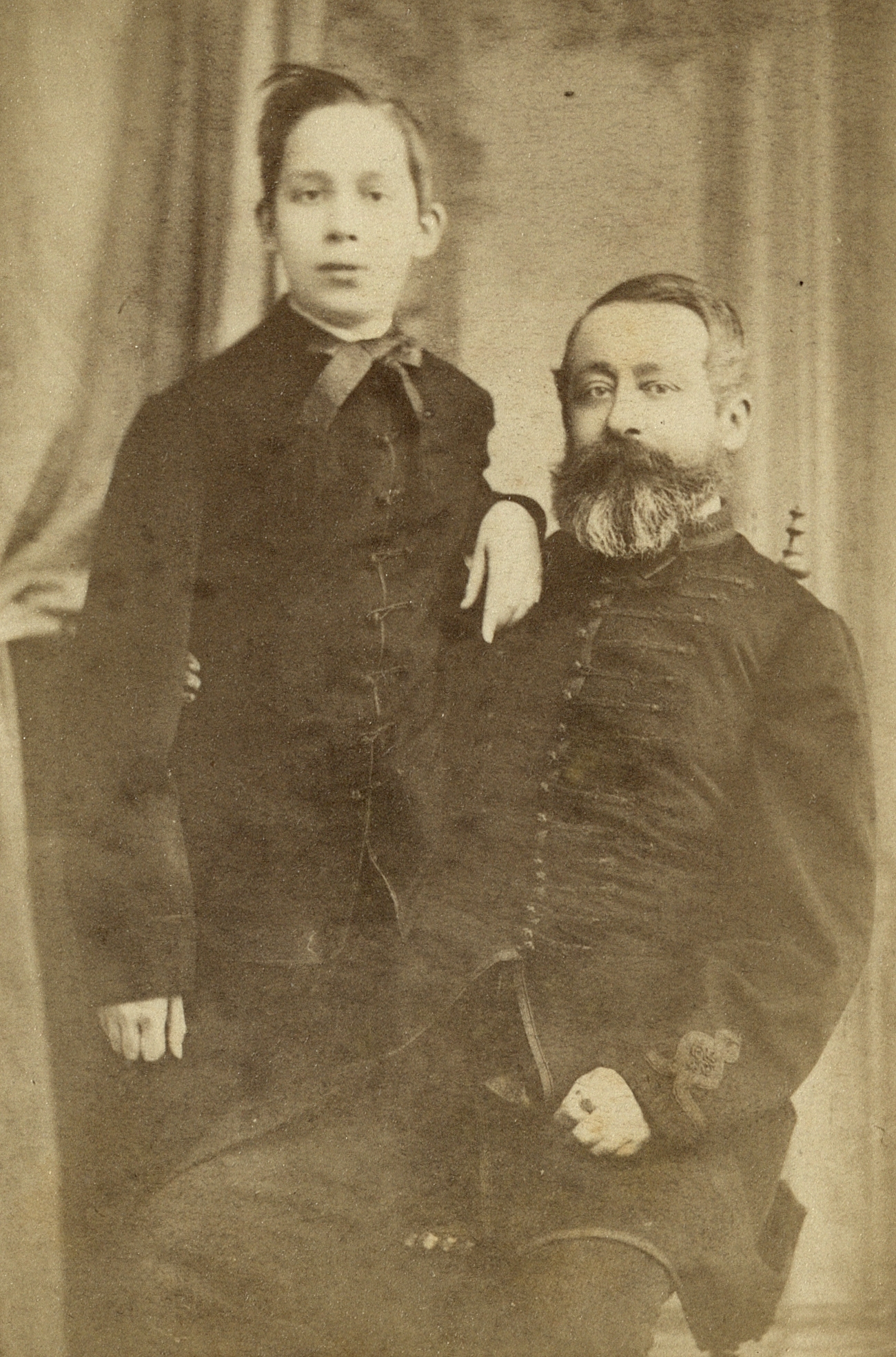 Josip Barbo Waxenstein (1825-1879), slovene politician